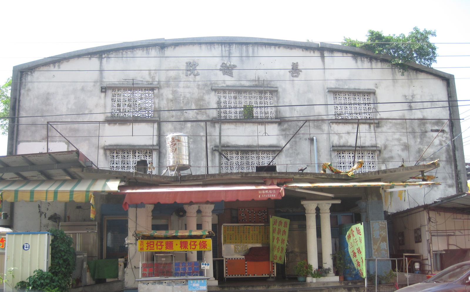 Shanhua Theater